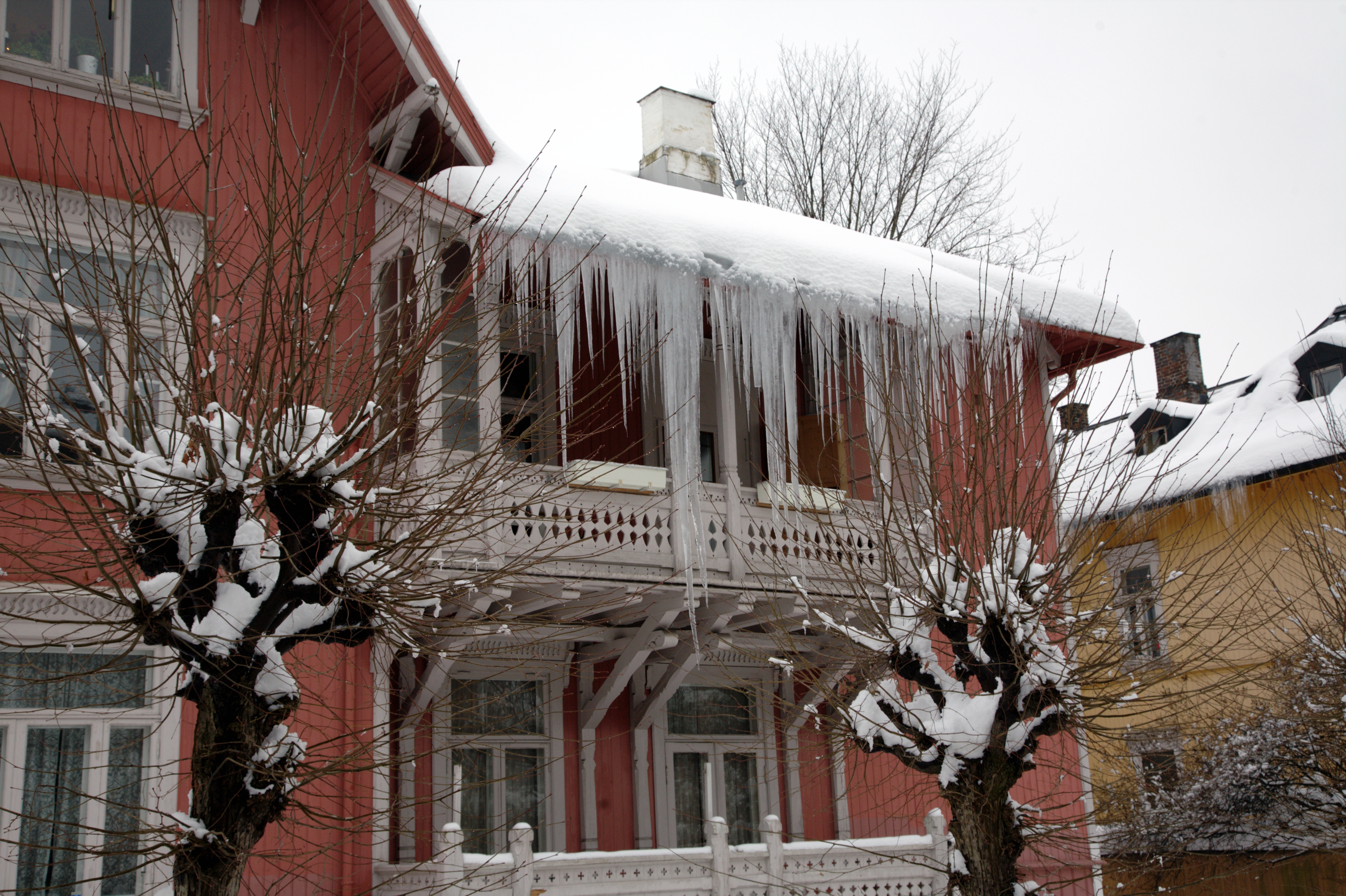 Icicles from the street Tidemandsgate in Oslo.